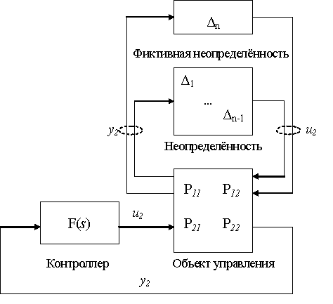 Classic robust control problem diagram